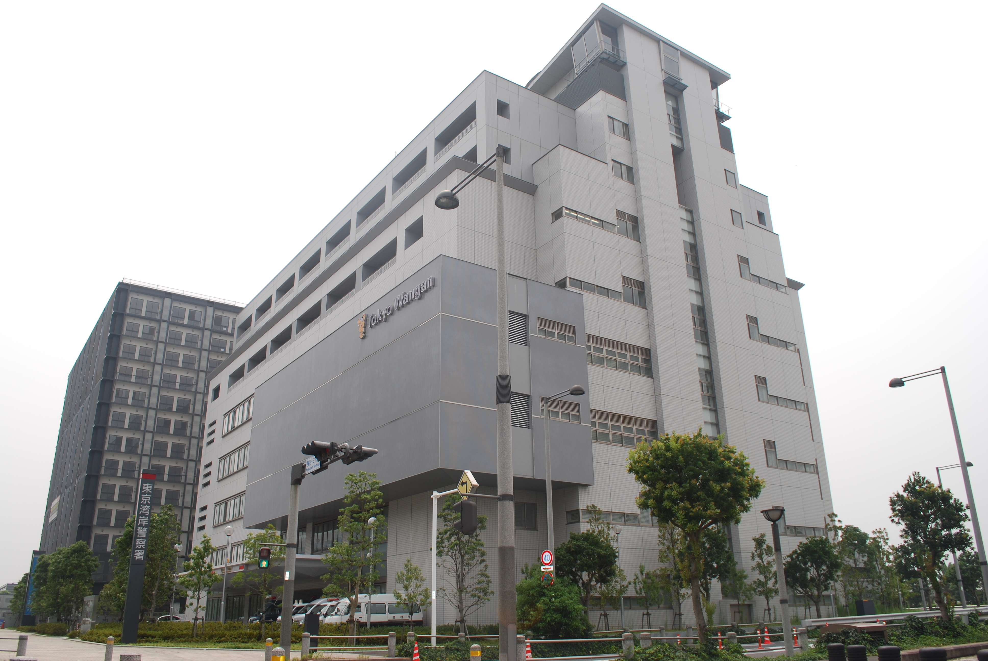 Tokyo-Wangan-Police-sta., Koto-ward, Tokyo,Japan